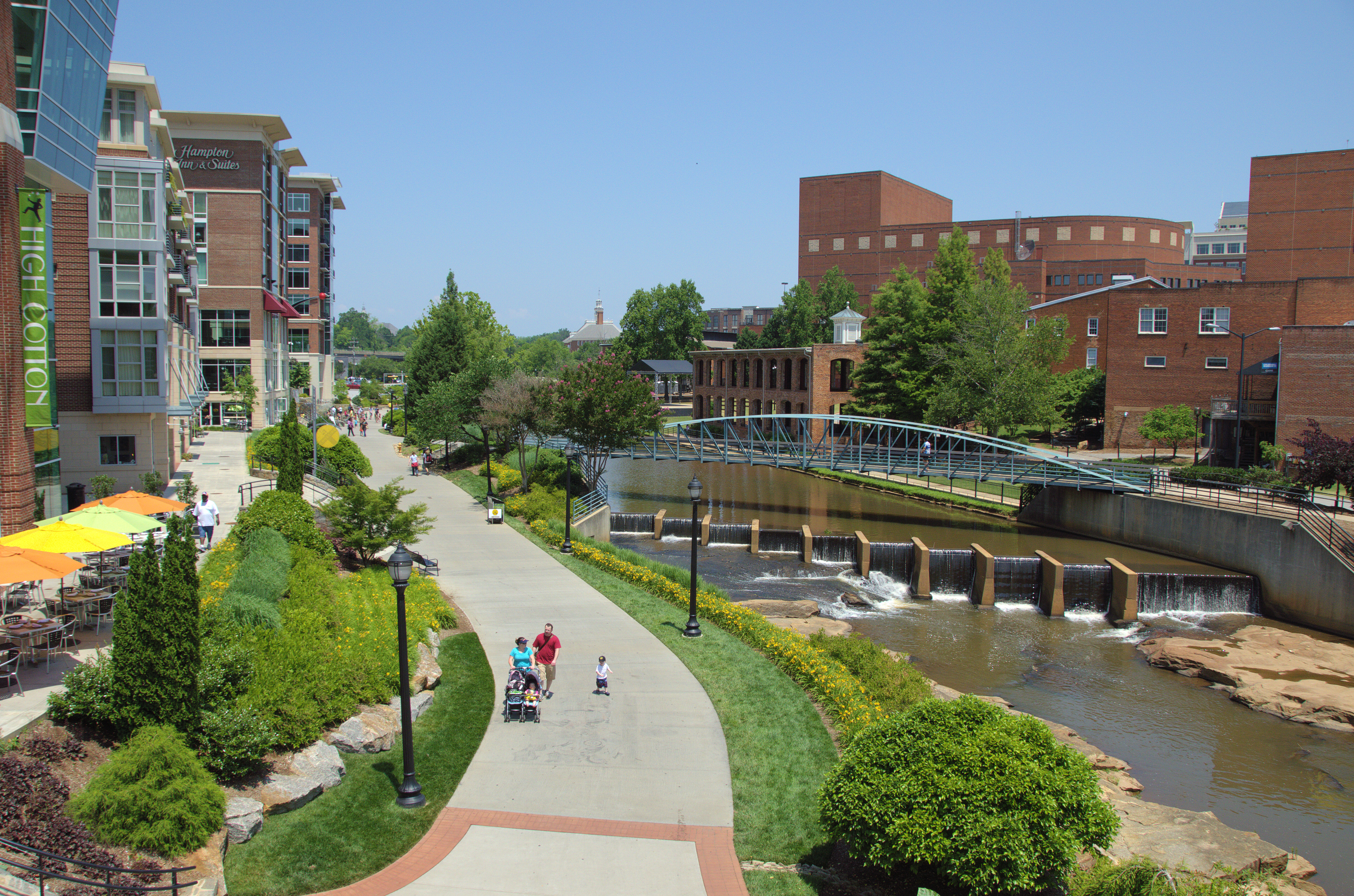 Downtown Greenville, South Carolina, United States.